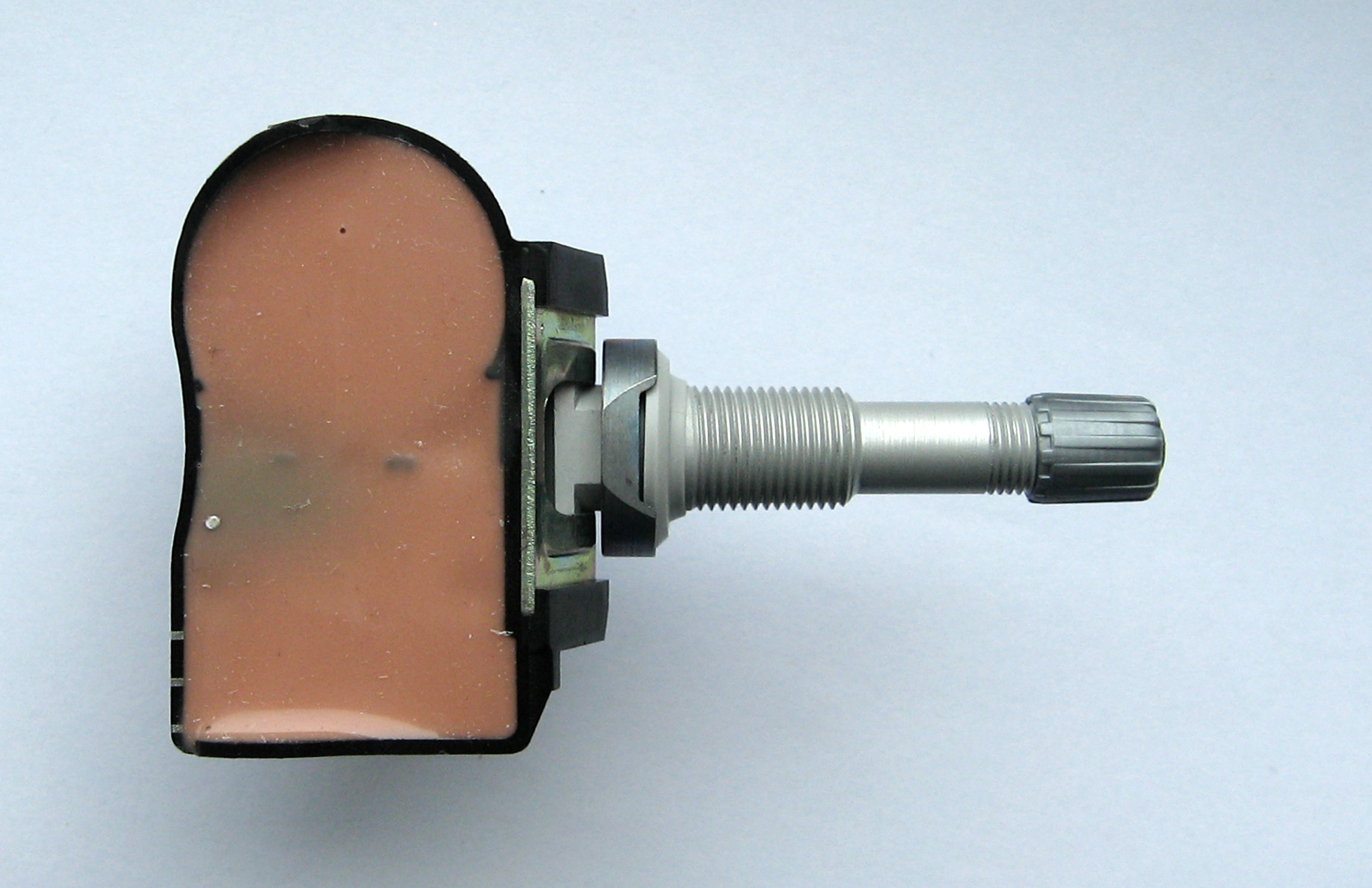 Tire-pressure monitoring system (TPMS) for Ford and Volvo cars (back side), Manufacturer: VDO